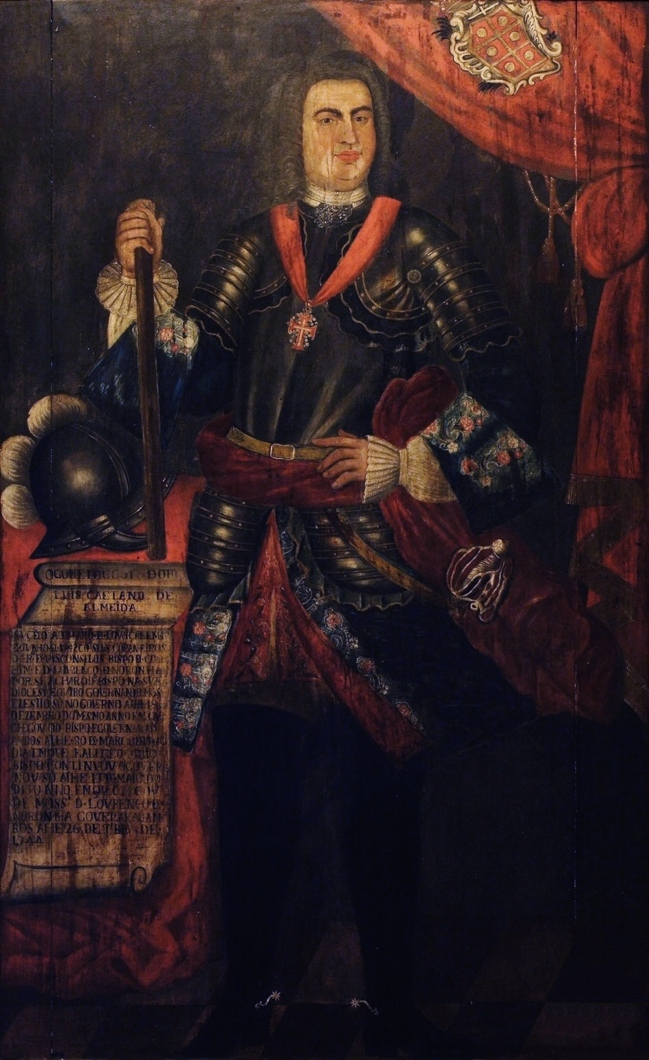 Luís Caetano de Almeida (1708-1757), Governor of Portuguese India